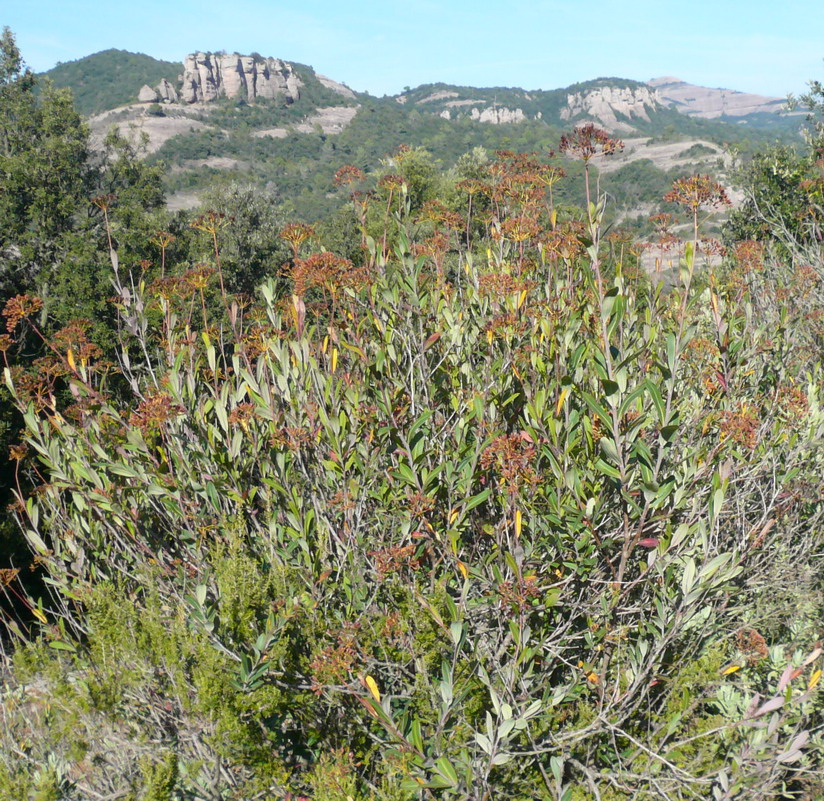 Bupleurum fruticosum in Serra de l'Obac